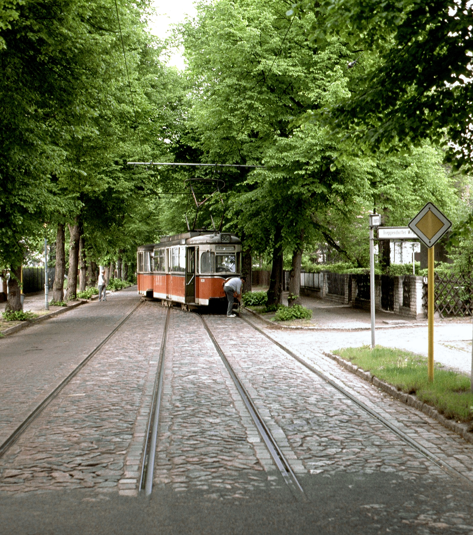 Tramway Berlin Schappachstraße